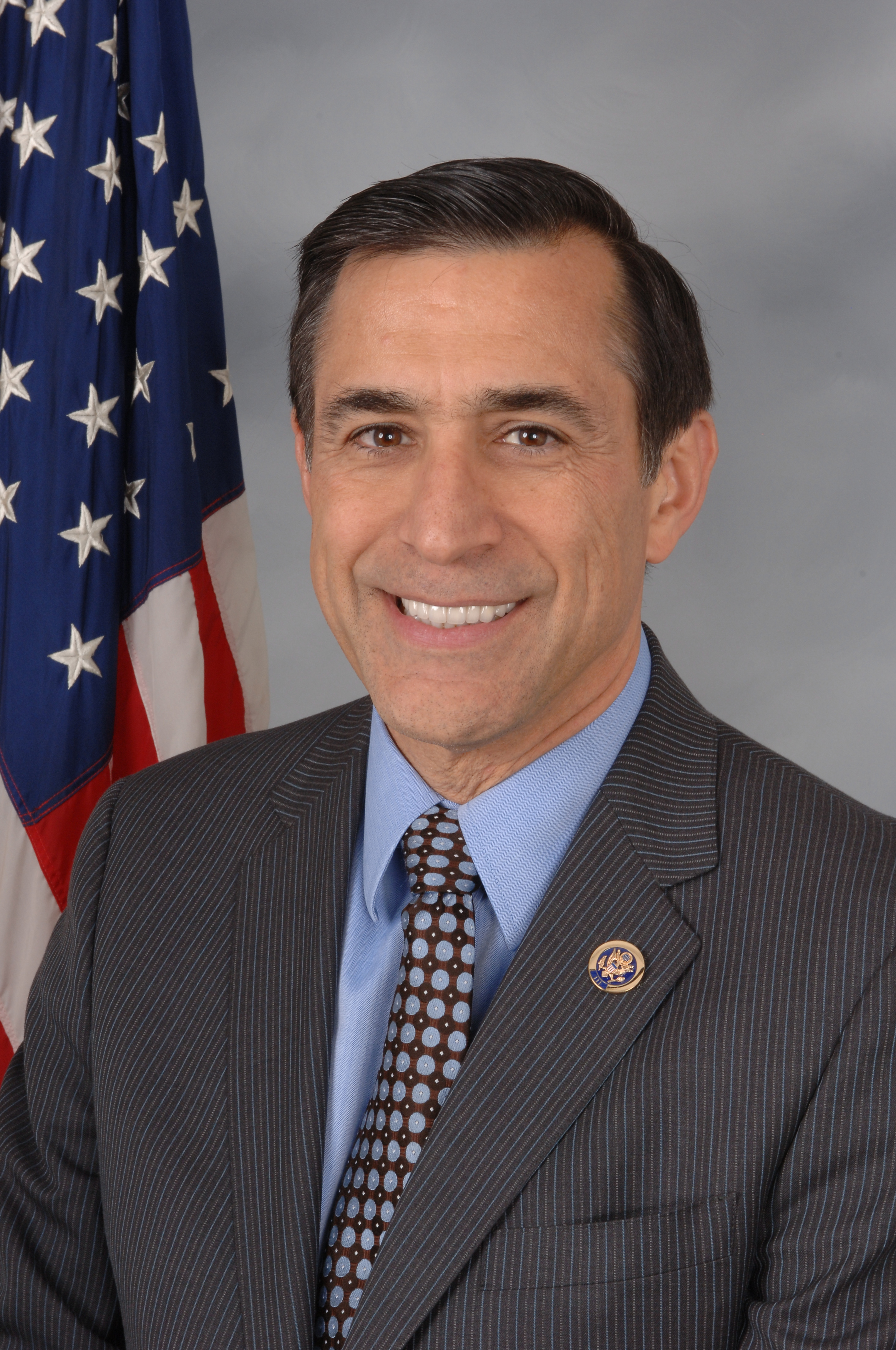 Congressman Darrell Issa's Official 111th Congressional Photograph